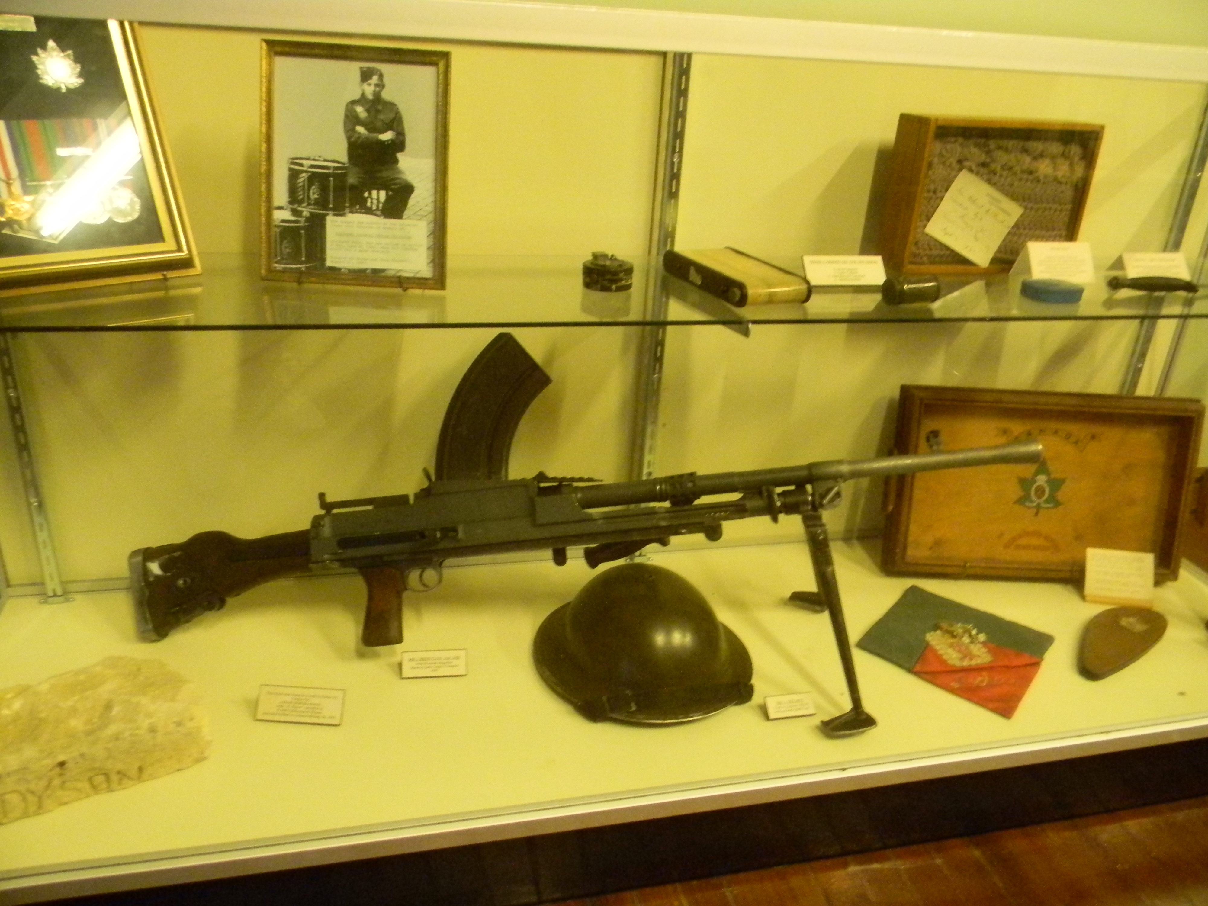 Casa Loma, Toronto